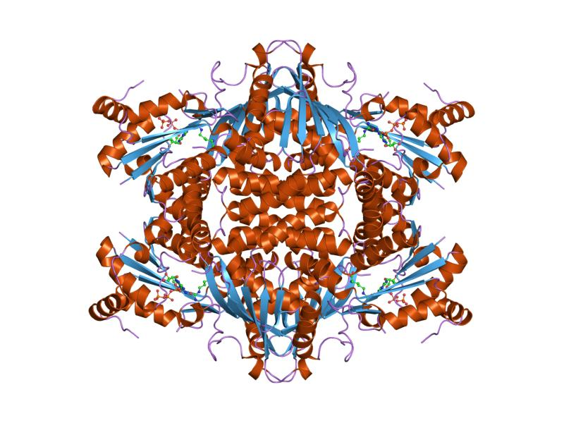 Cartoon representation of the molecular structure of protein registered with 1j21 code.